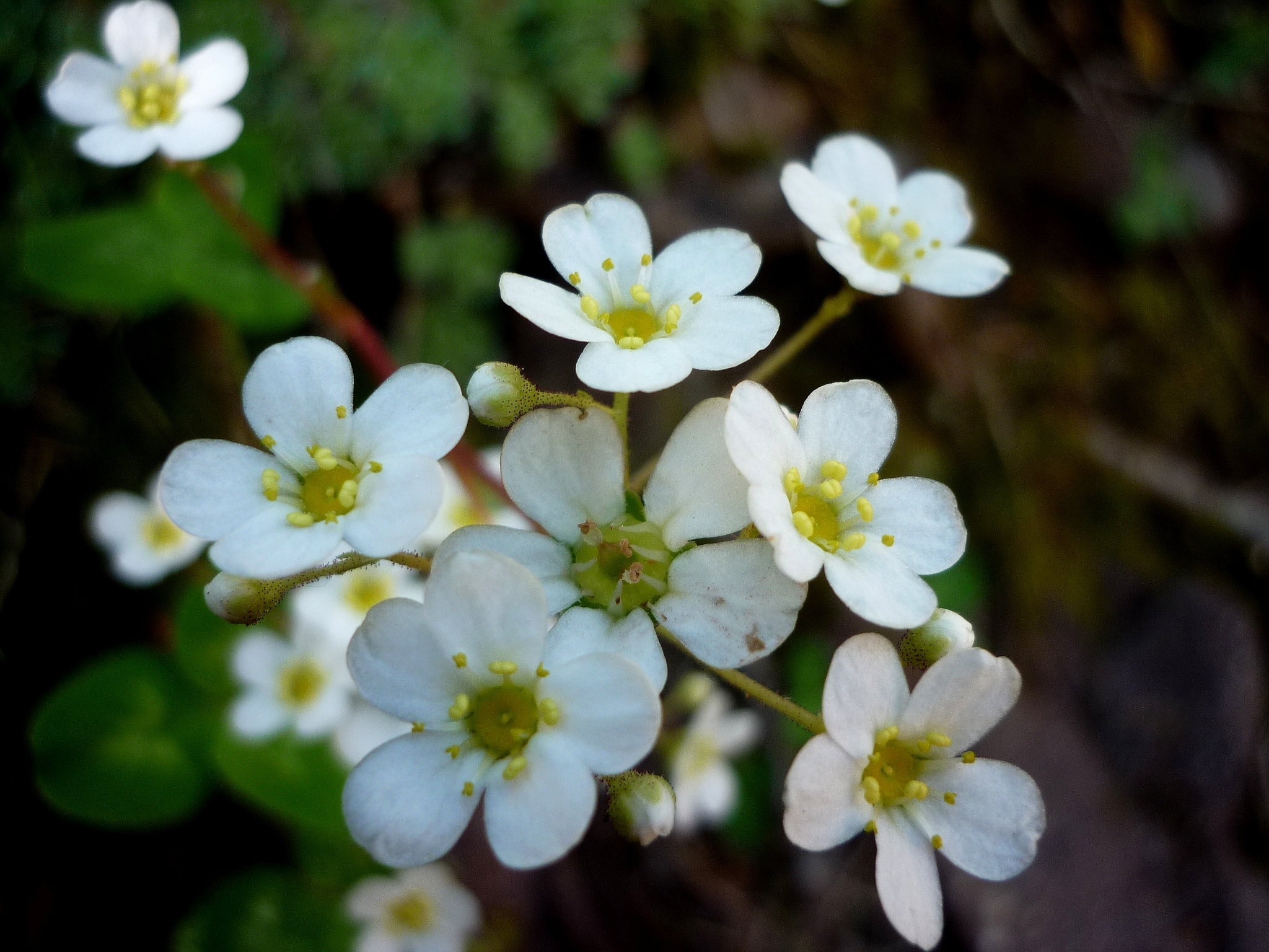 Saxifraga paniculata. In Estana (Baixa Cerdanya-Catalunya). To 1.630 m. altitude